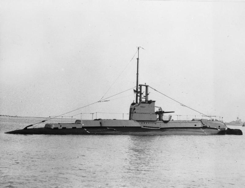 British S class submarine HMSM STERLET moored at a buoy in the Medway.